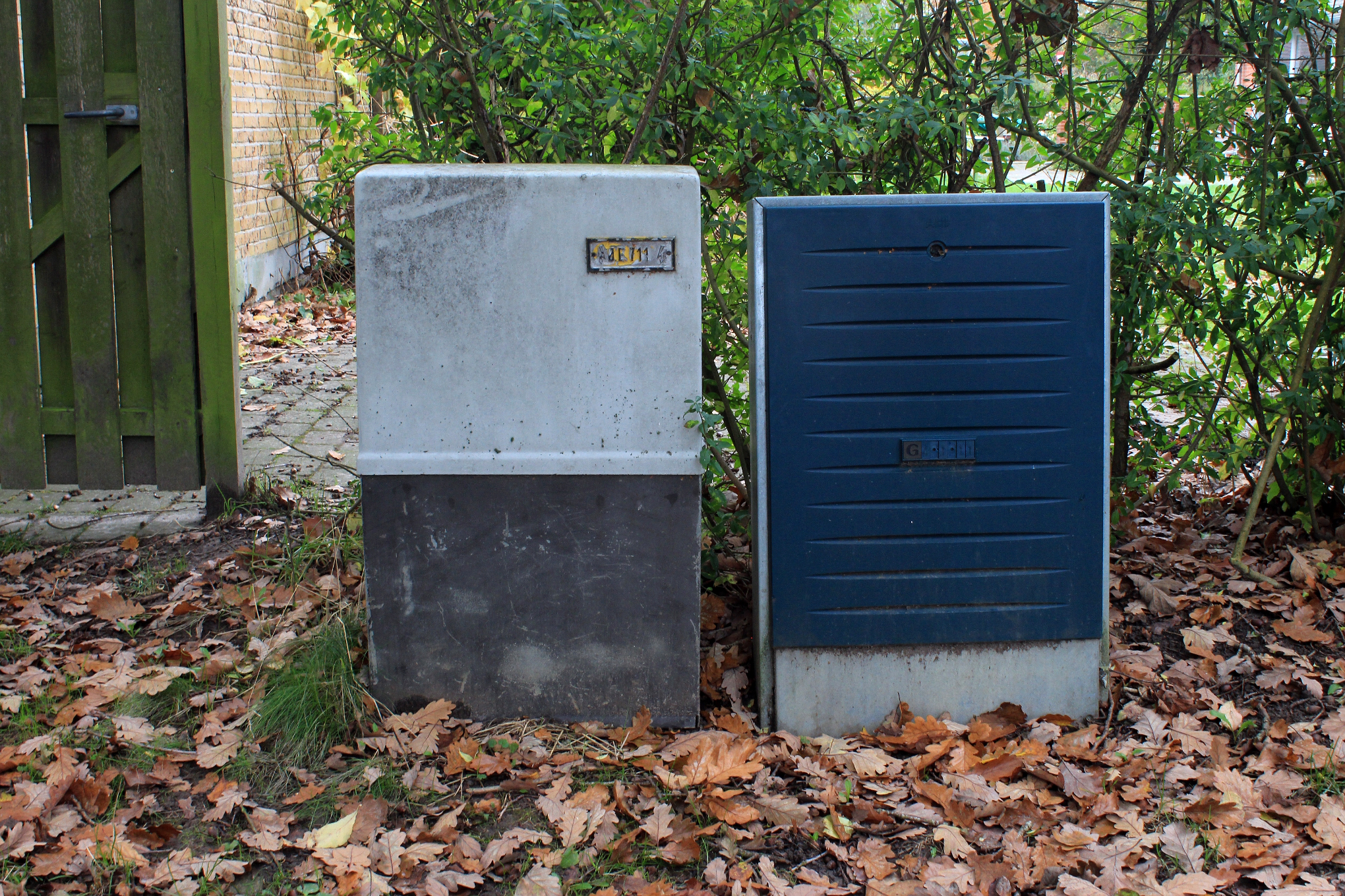 Infrastructure in Denmark: Service-stations for electricity (on the left) and fiber-optic internet.